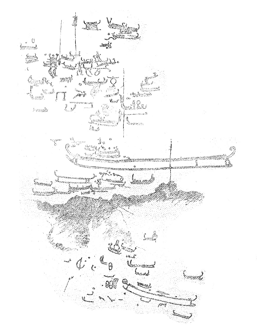 Bronze age rock carvings near Simrishamn (Skane, Sweden) show a navel engagement